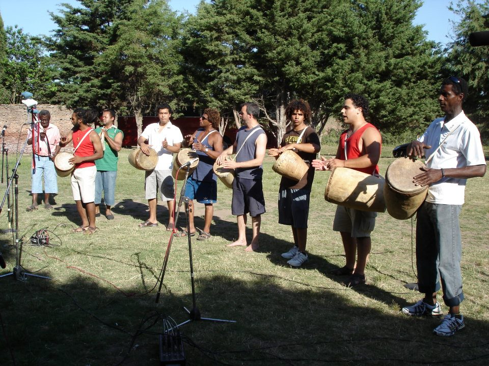 Negros Argentinos (black argentinians) group playing argentine candombe.